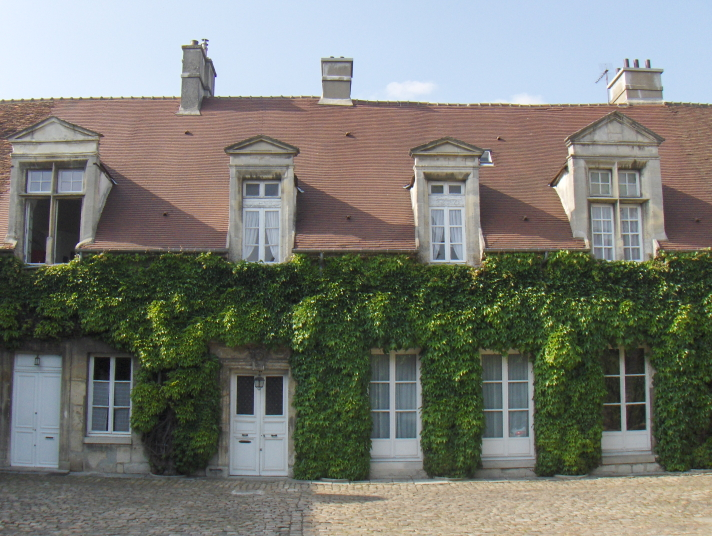 Hôtel de Beauvais, Chantilly oldest house.